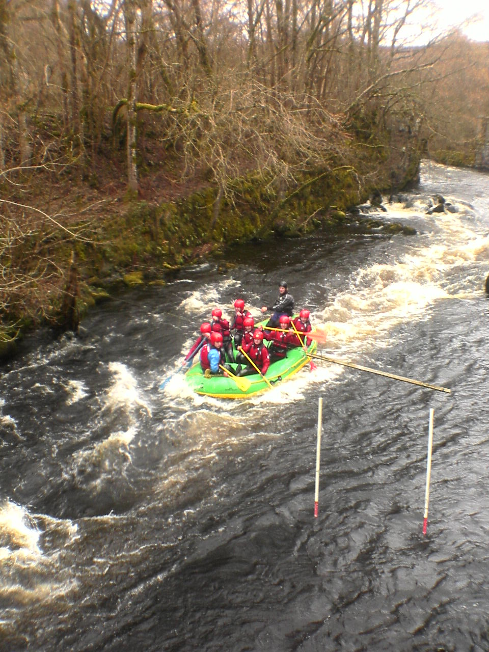 Canolfan Tryweryn - Approach to Stone Bridge, Author me Jamsta 12:12, 15 September 2006 (UTC)